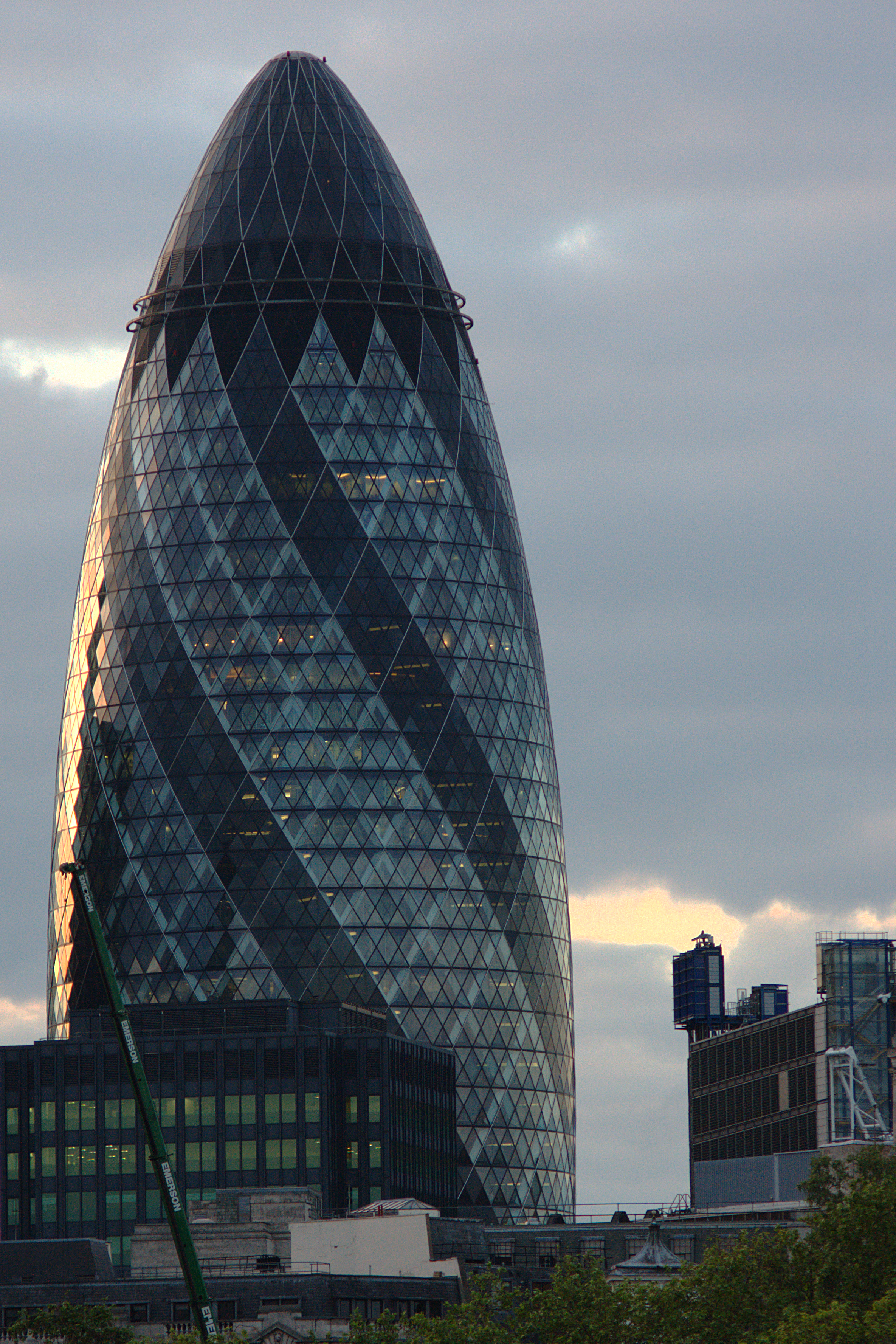 Swiss-Re-Tower (Gherkin) in Southark, London, UK